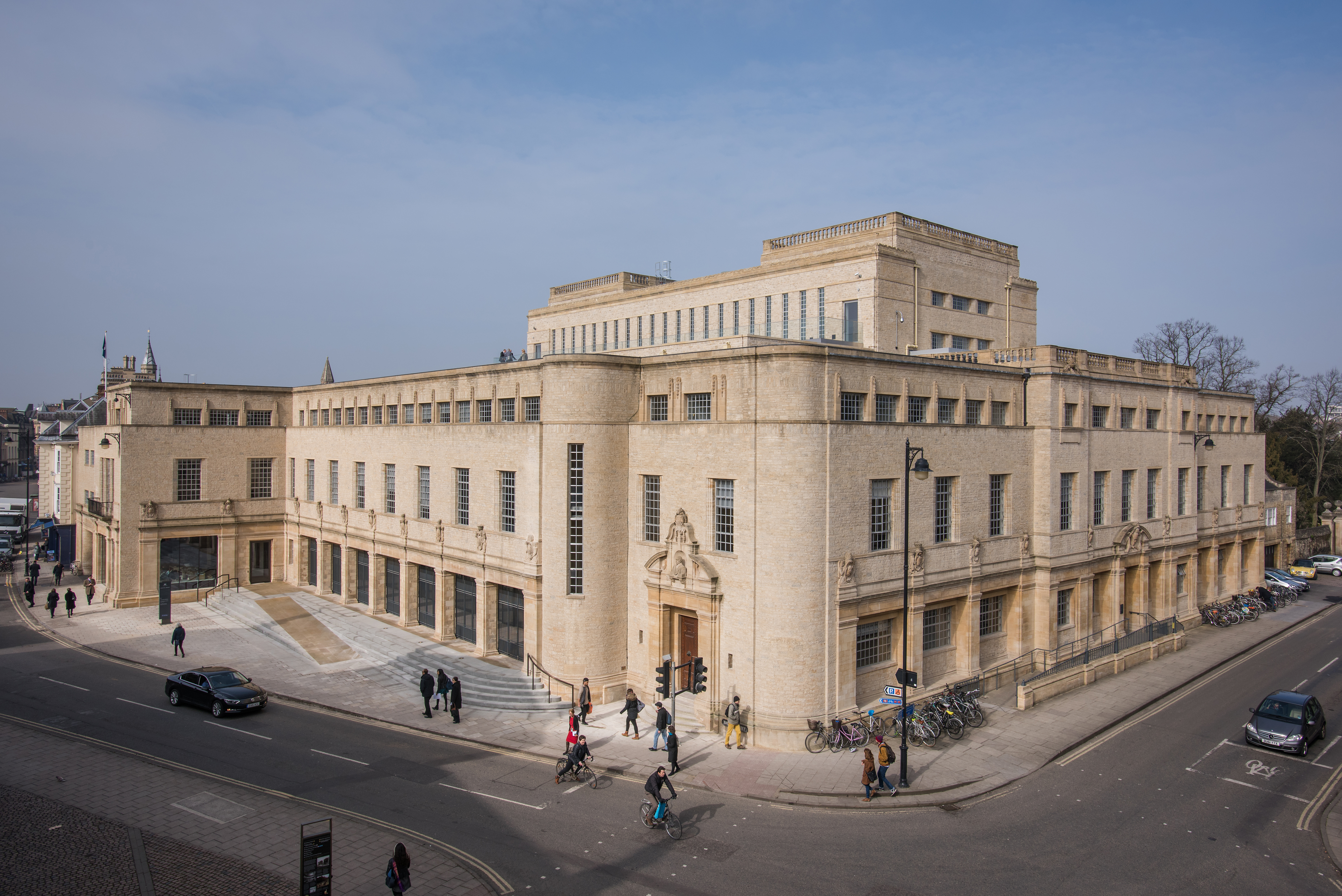 Exterior view of the Weston Library, Oxford, taking in the entrace to Blackwell Hall on the left and the Readers' Entrance on the right. Photo taken by John Cairns with copyright owned by the client, Bodleian Libraries, and uploaded to Commons by an authorised employee of the Libraries.